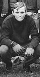 Factual corrections and alternative descriptions are encouraged separately from the original description. Additionally errors can be reported at this page to inform the Bundesarchiv. Original historic description: Dieter Schneider 1969